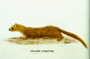 probably made 1853 Commons:Category:Mustela strigidorsa Commons:Category:Drawings